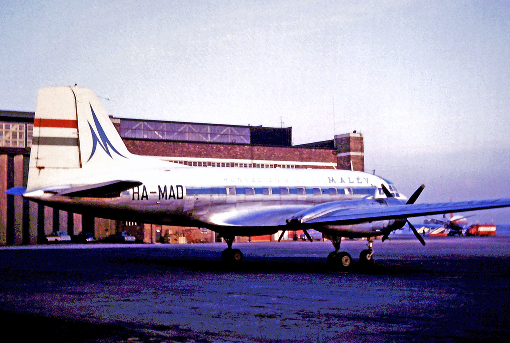 Ilyushin (VEB) Il-14P HA-MAD of Malev at Liverpool (Speke) Airport in 1966